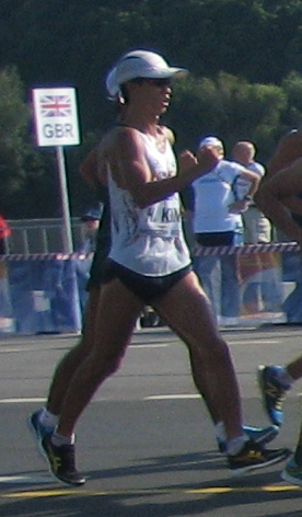 2013 IAAF World Championships in Moscow. 20 km walk men.